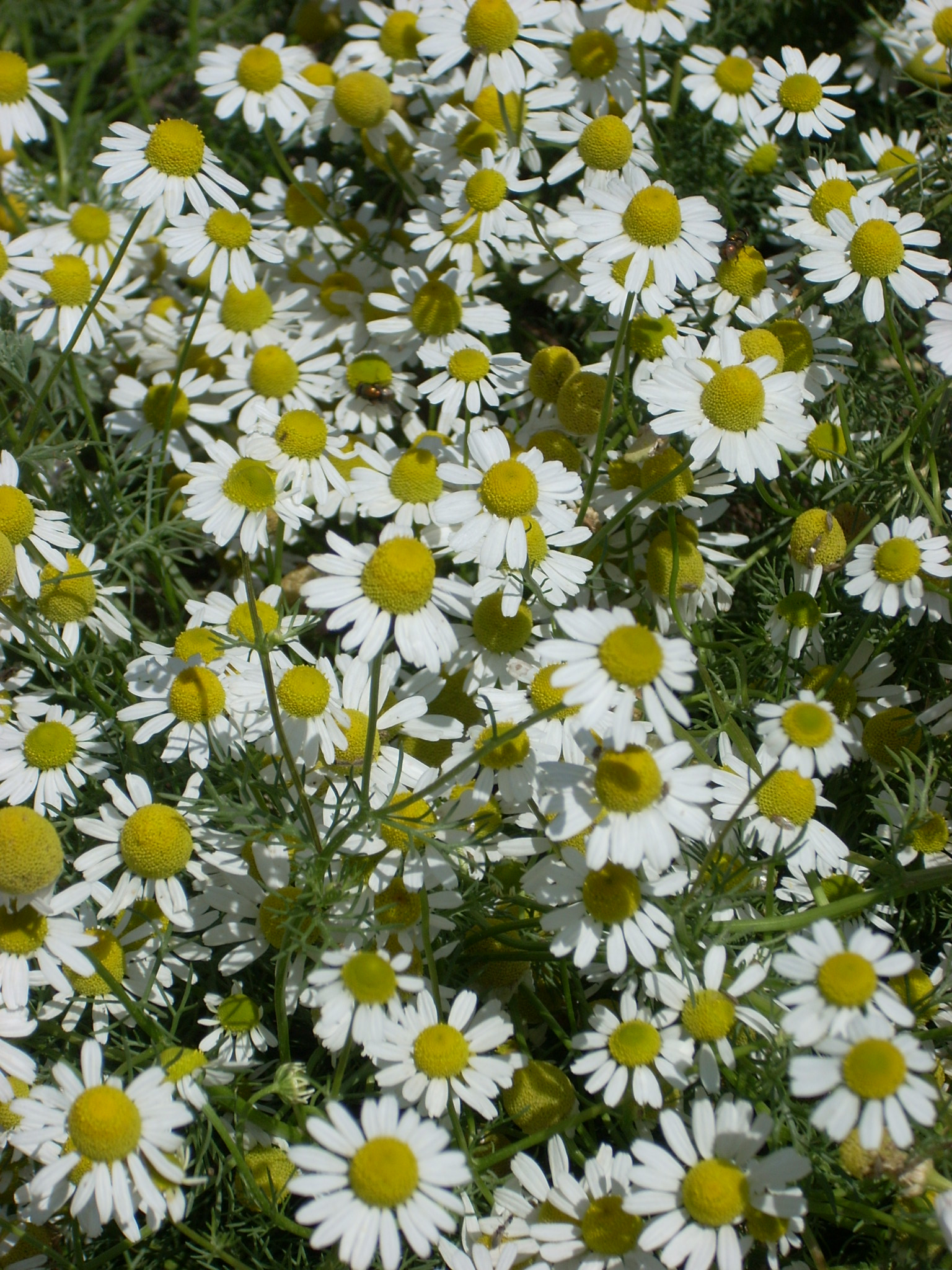 Flowers of German chamomile, Matricaria chamomilla (syn: Matricaria recutita).